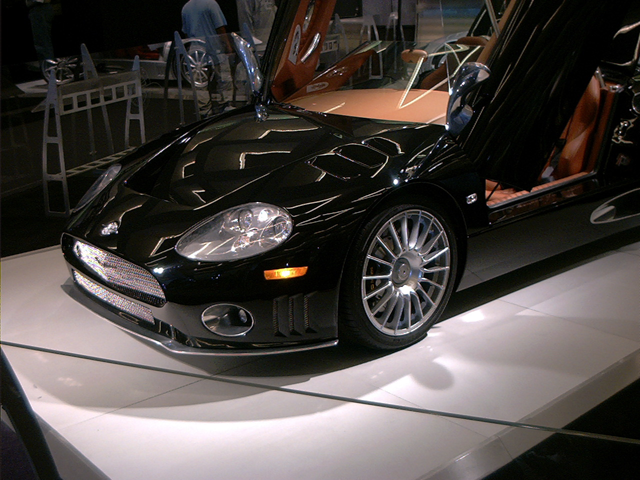 A Spyker C8 Spyder at the 2006 Greater Los Angeles Auto Show. (Photo taken by Covinan)